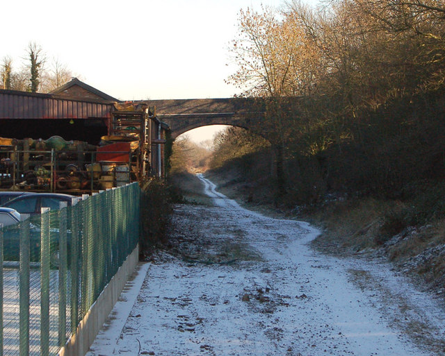 The site of the former Marton railway station on the dismantled line from Rugby to Leamington Spa, Warwickshire, UK